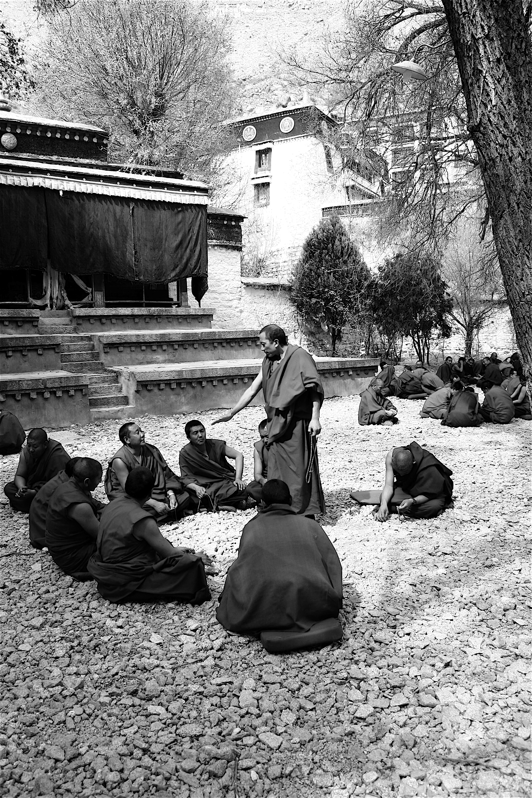 Colin Nisbet took this photograph on April 14, 2006 at the Sera Monastery. Following afternoon meditation, the monks go into a large courtyard and practice their debating skills. File is or will be on file at